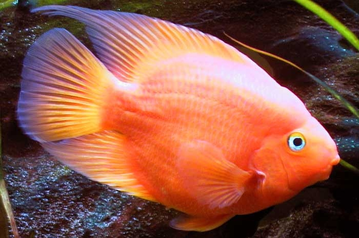 Bloody Parrot, also called the Red Parrot, over his egg mass in a aquarium.